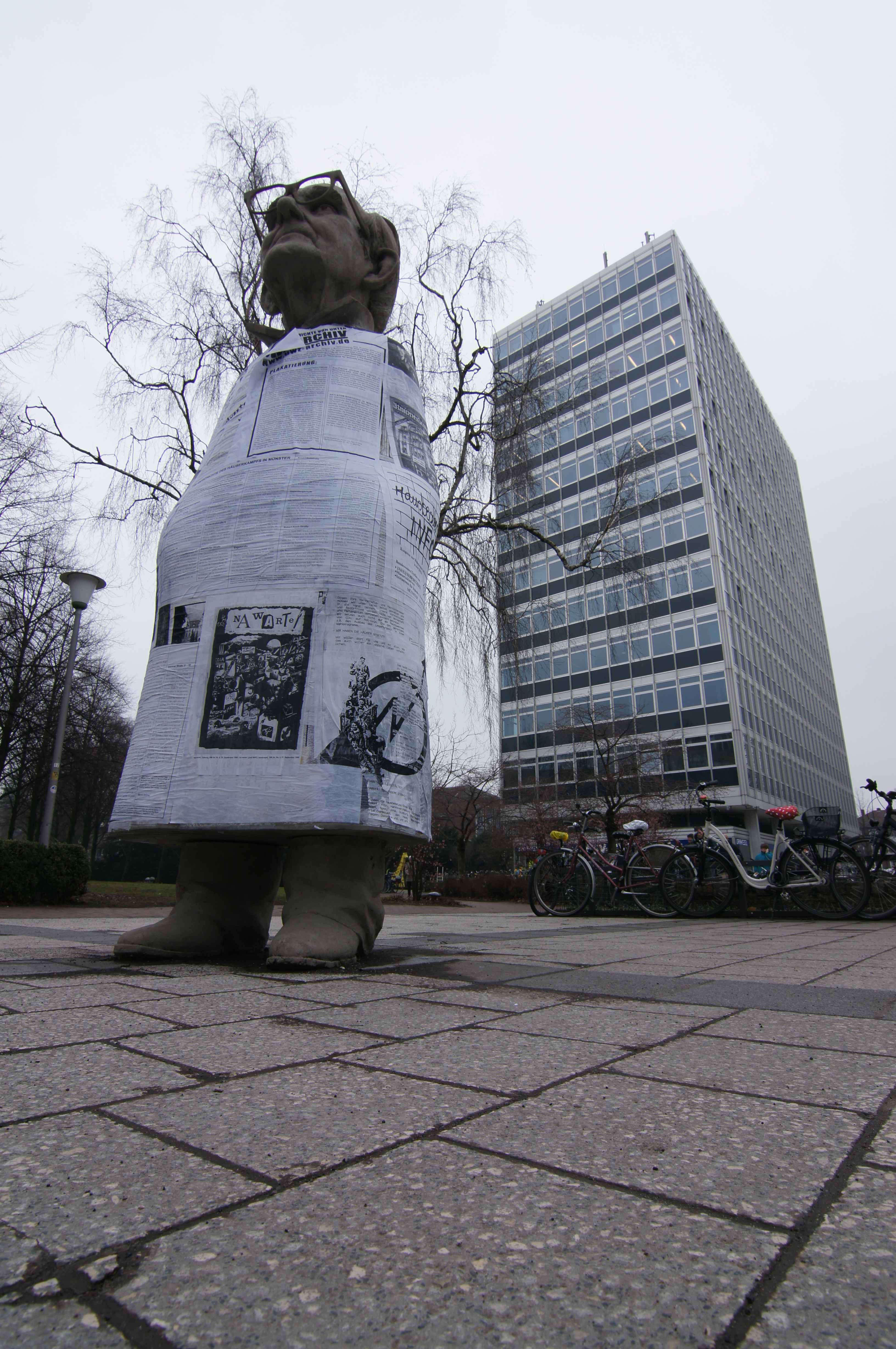 The Sculpture "Münsters Geschichte von unten" by Silke Wagner. Iduna-Building by Friedrich Wilhelm Kraemer.